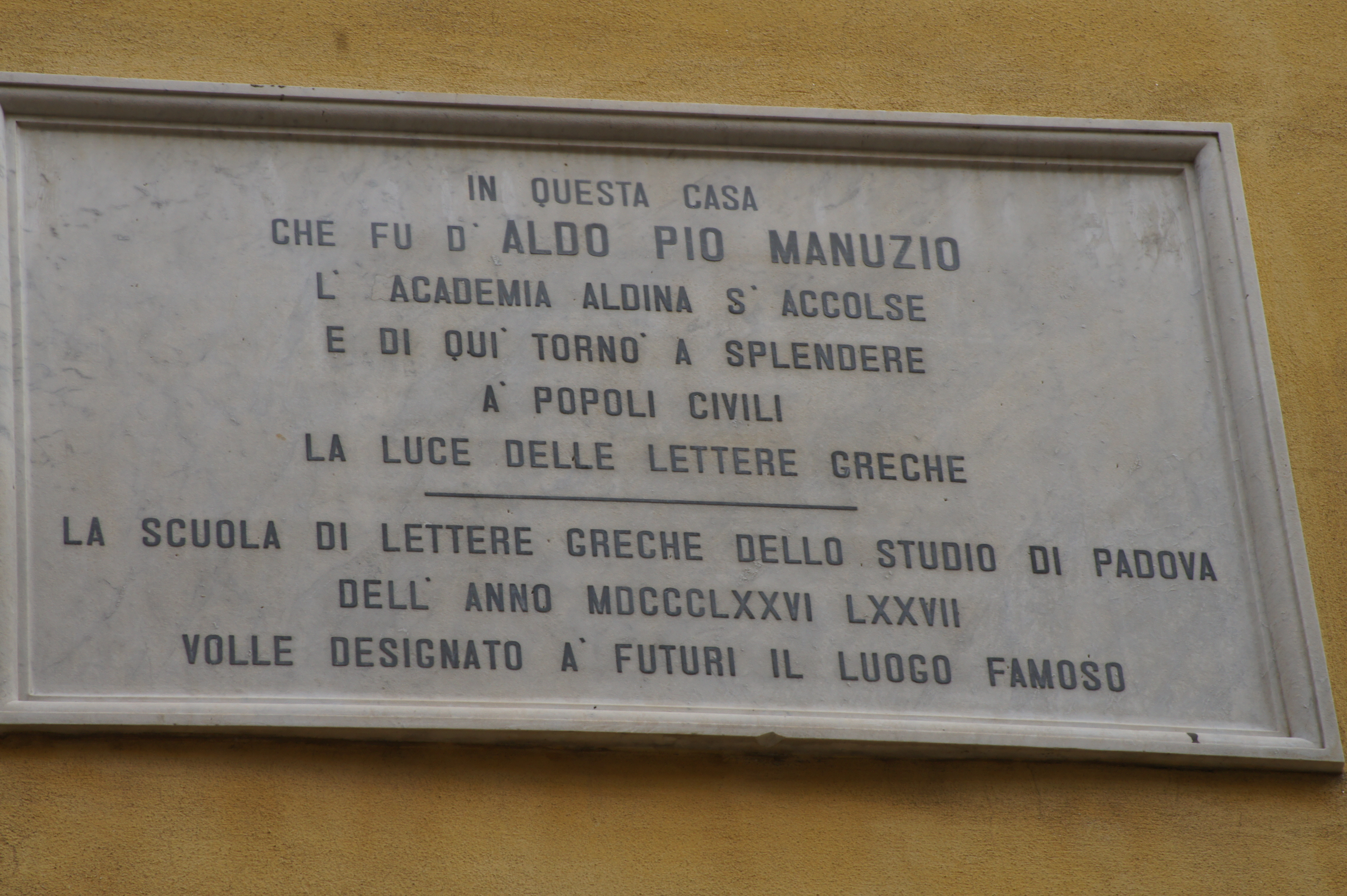 Memorial of Aldo Manuzio's Accademia Aldina in Venice, Italy.